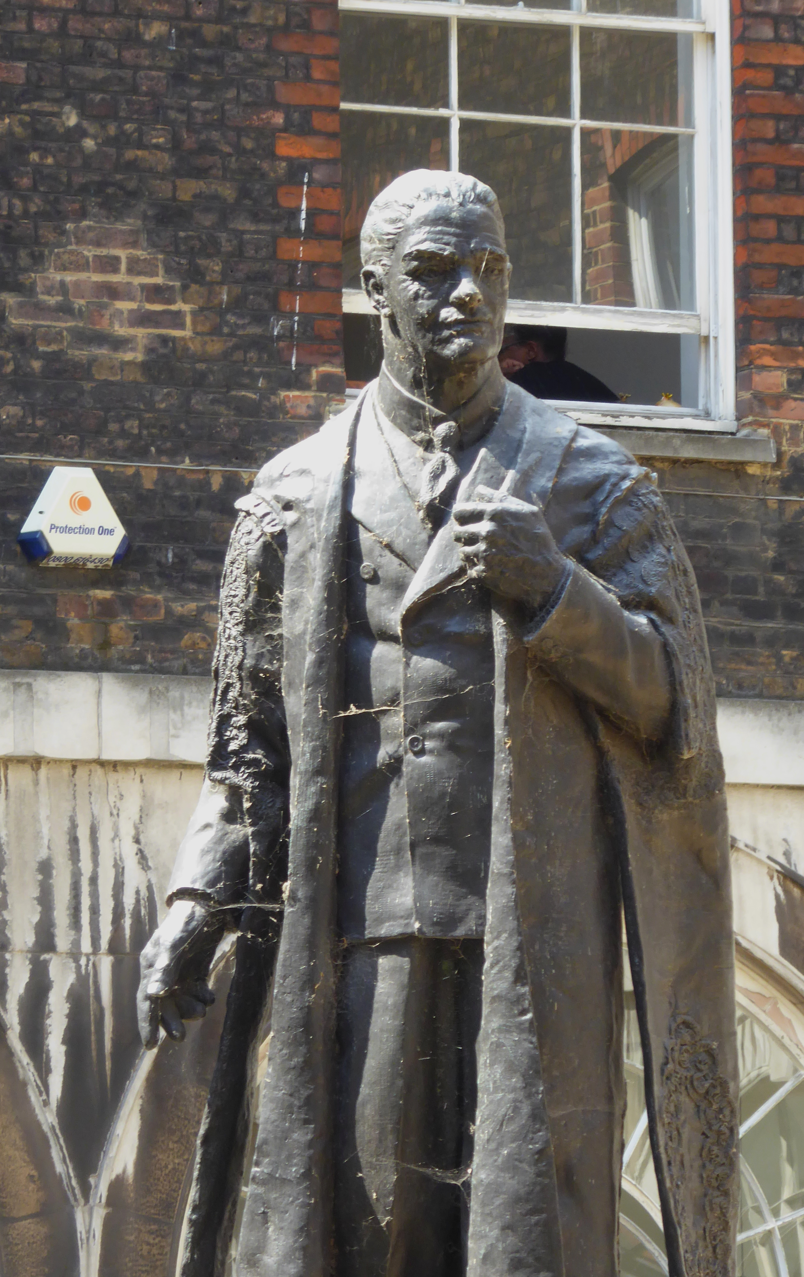 Statue of Viscount Nuffield in a courtyard of Guy's Hospital.